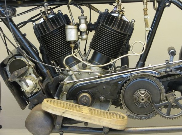 1924 AJS Model D1 combination engine left side